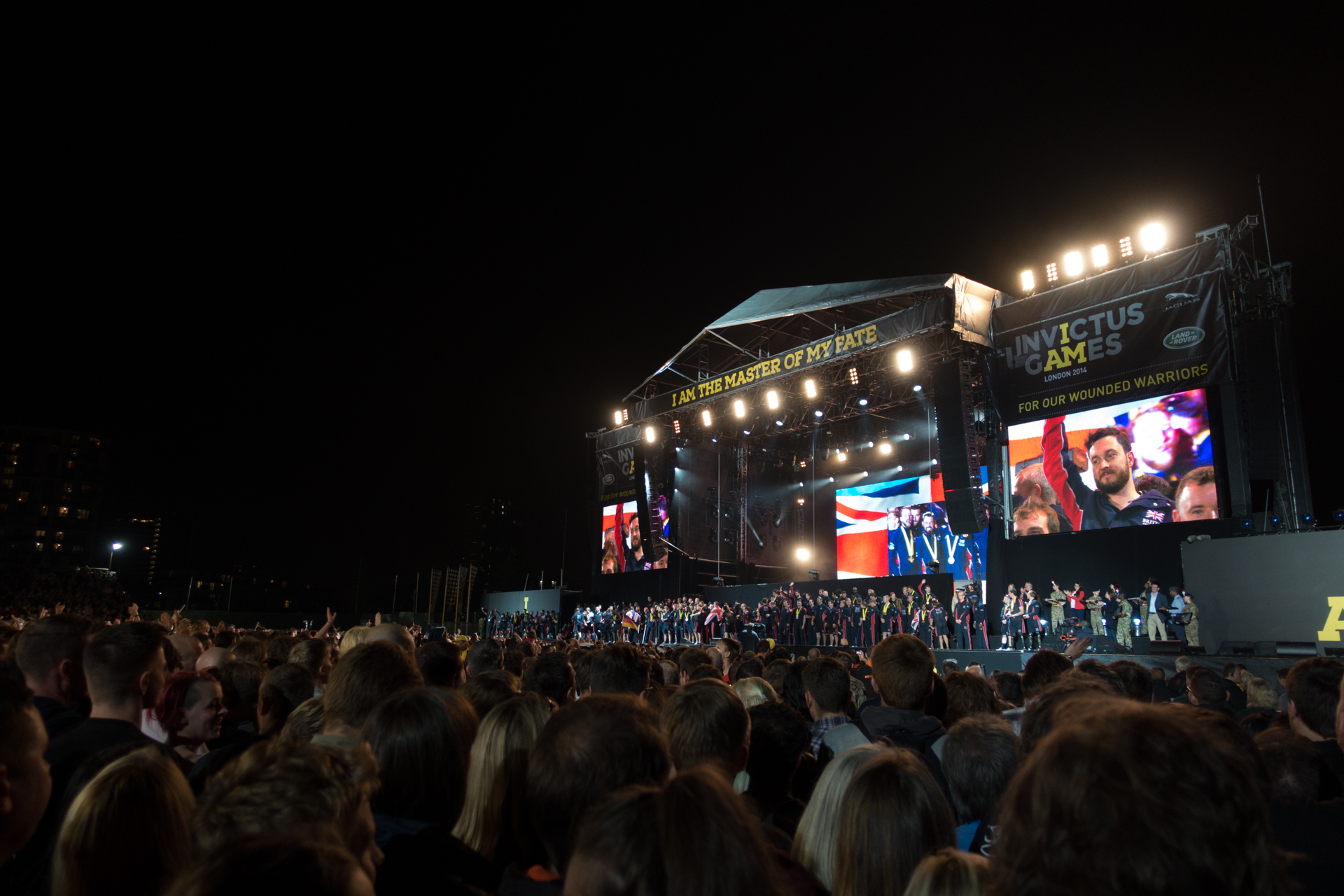 Invictus games, The British Team